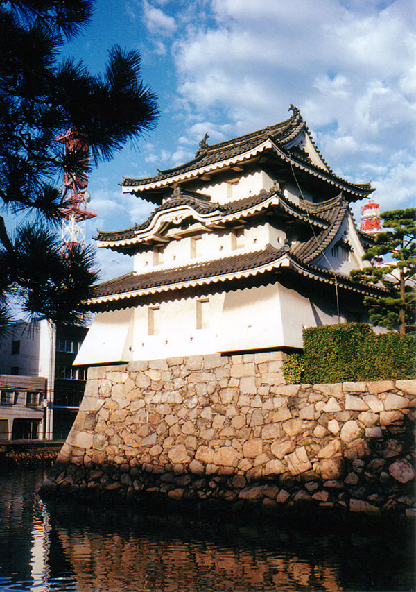 photo of Takamatsu Castle Ushitora-yagura(Japan's national important cultural property)